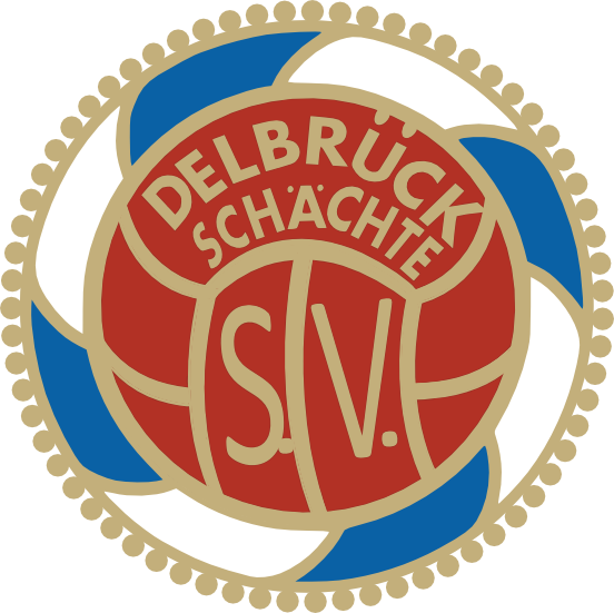 Logo of SV Delbrückschächte Hindenburg, German football team.